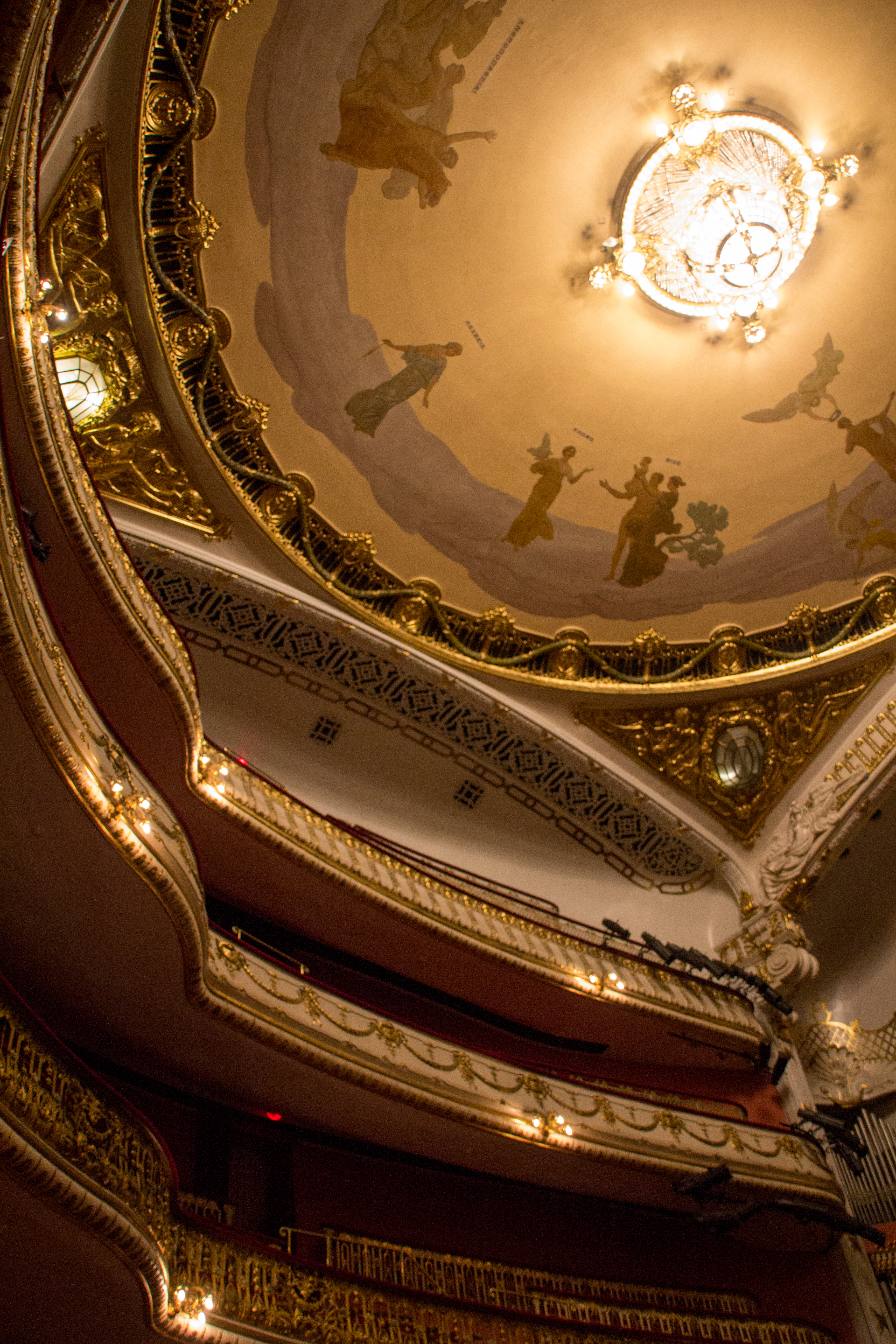 Theatro Municipal de São Paulo, São Paulo, Brazil.